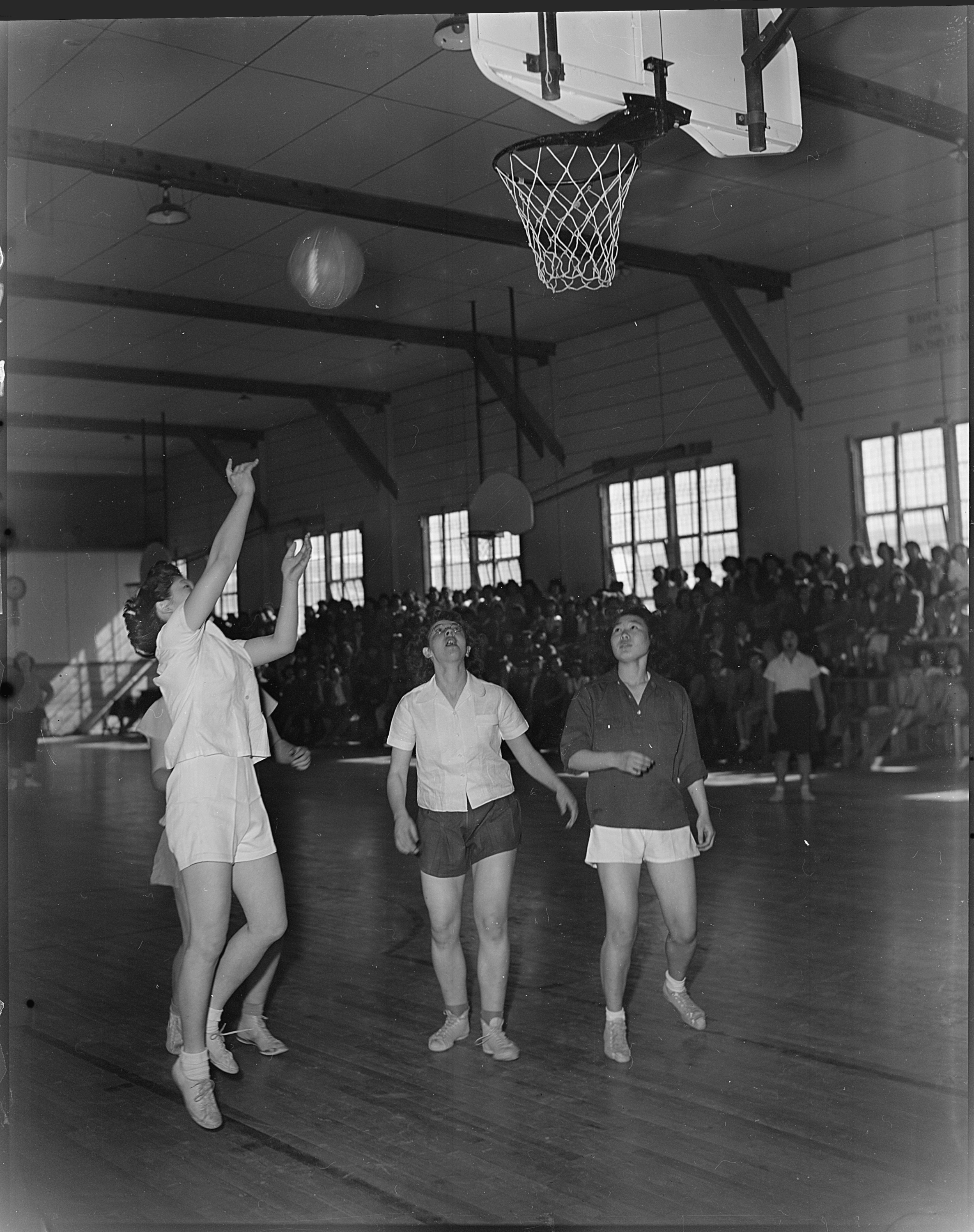 Scope and content: The full caption for this photograph reads: Heart Mountain Relocation Center, Heart Mountain, Wyoming. A hotly contested interscholastic basketball game between the Heart Mountain and Powell High School girls teams took place at the Heart Mountain Relocation Center on March 18th. The Heart Mountain girls were victorious, with the final score reading 32 - 24.